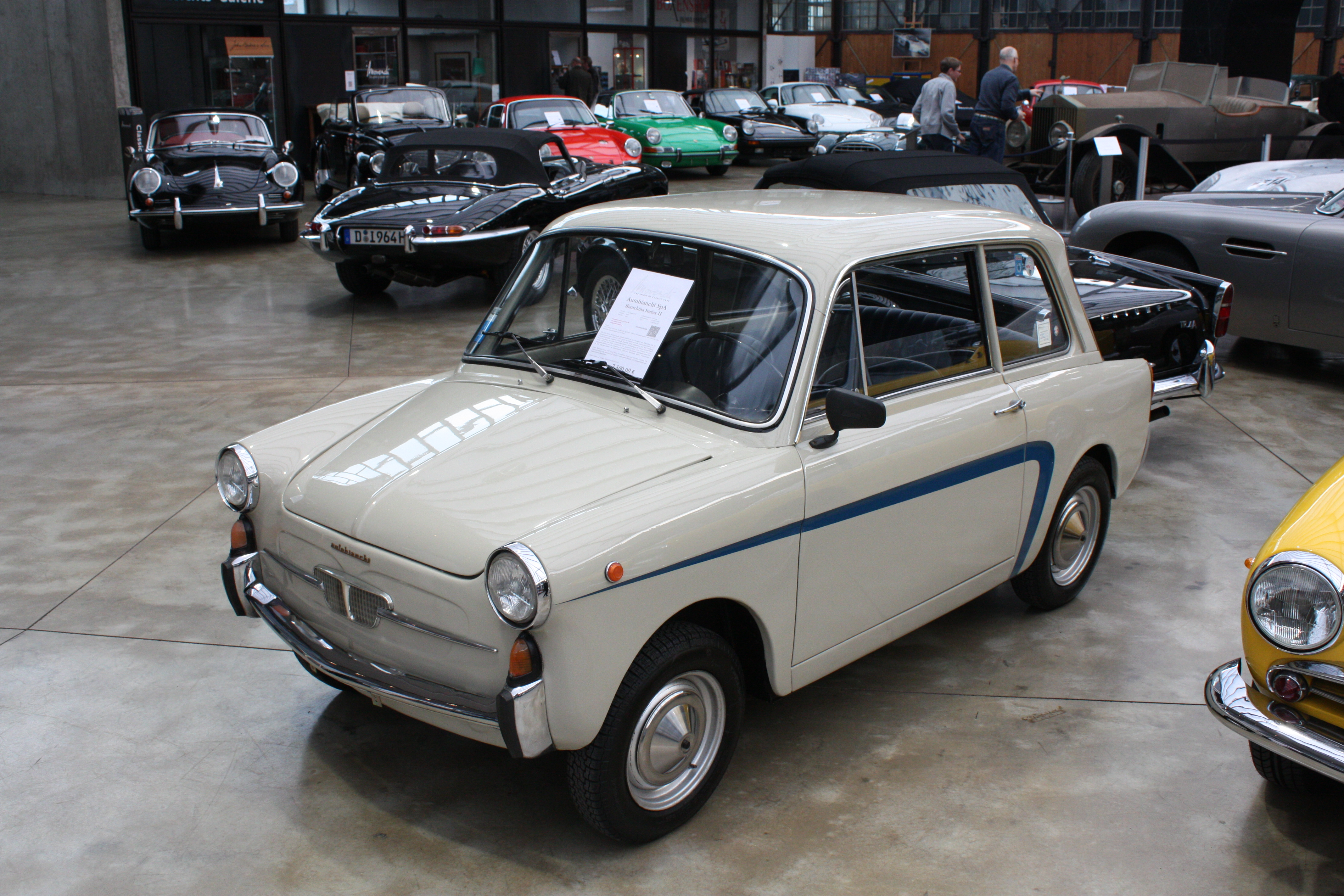 Autobianchi Bianchina Berlina, Mk.II, 1967, seen at CLASSIC REMISE, Duesseldorf, Germany